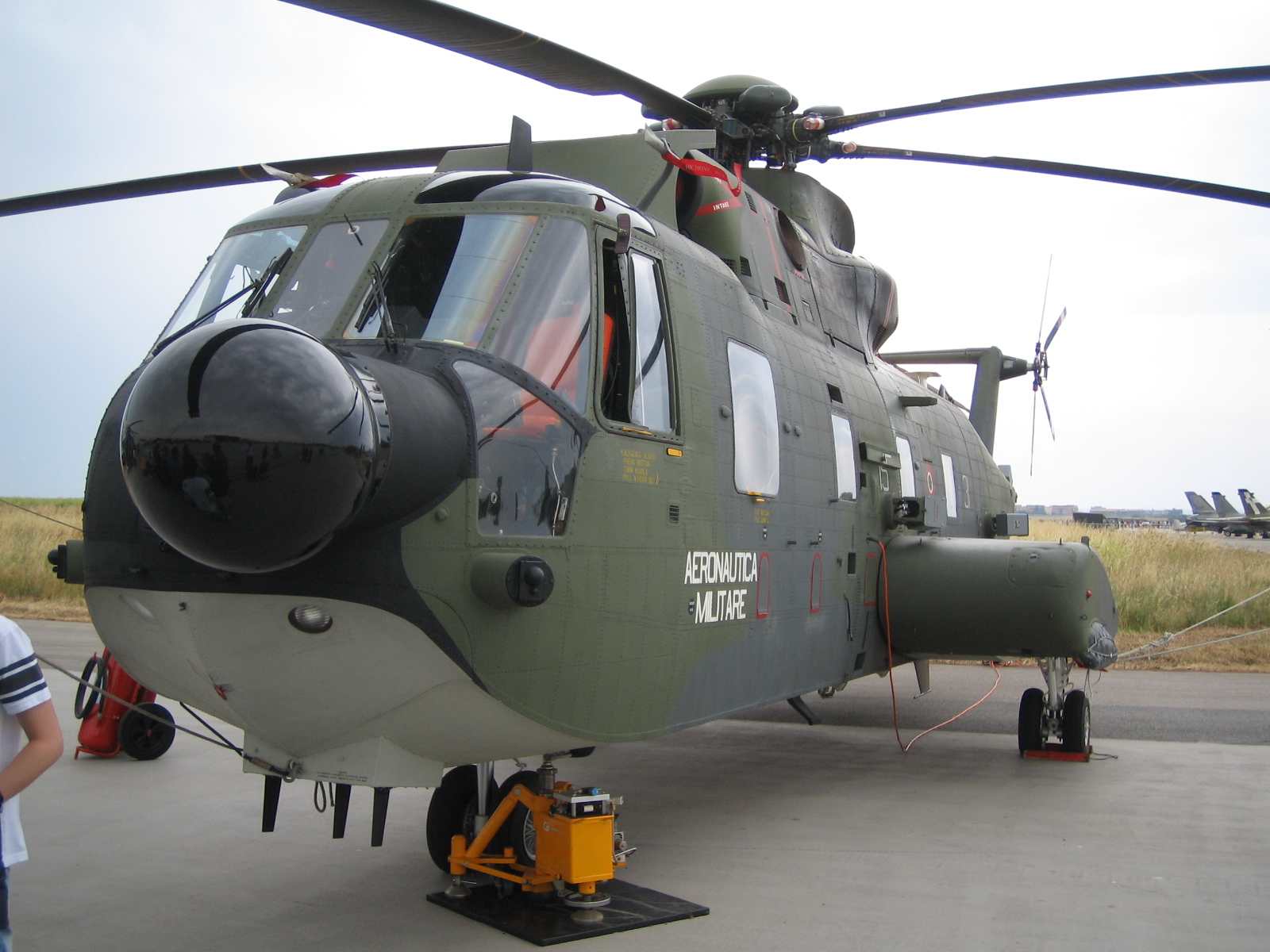 Aeronautica Militare Agusta Sikorsky HH-3F